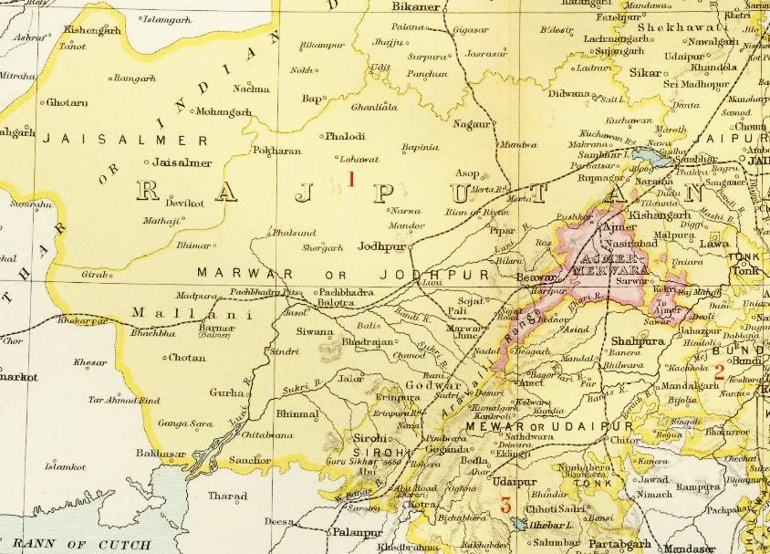 1909 Imperial Gazetteer of India Rajputana map section